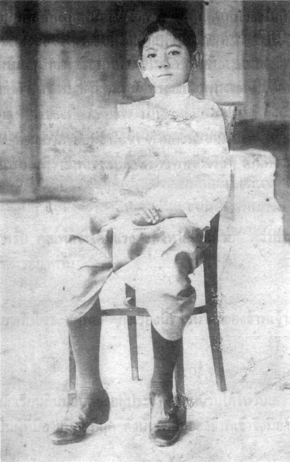 Portrait of Mom Luang Pin Malakul as a student at Suankularb Wittayalai School (then known as Wat Ratchaburana School), Thailand